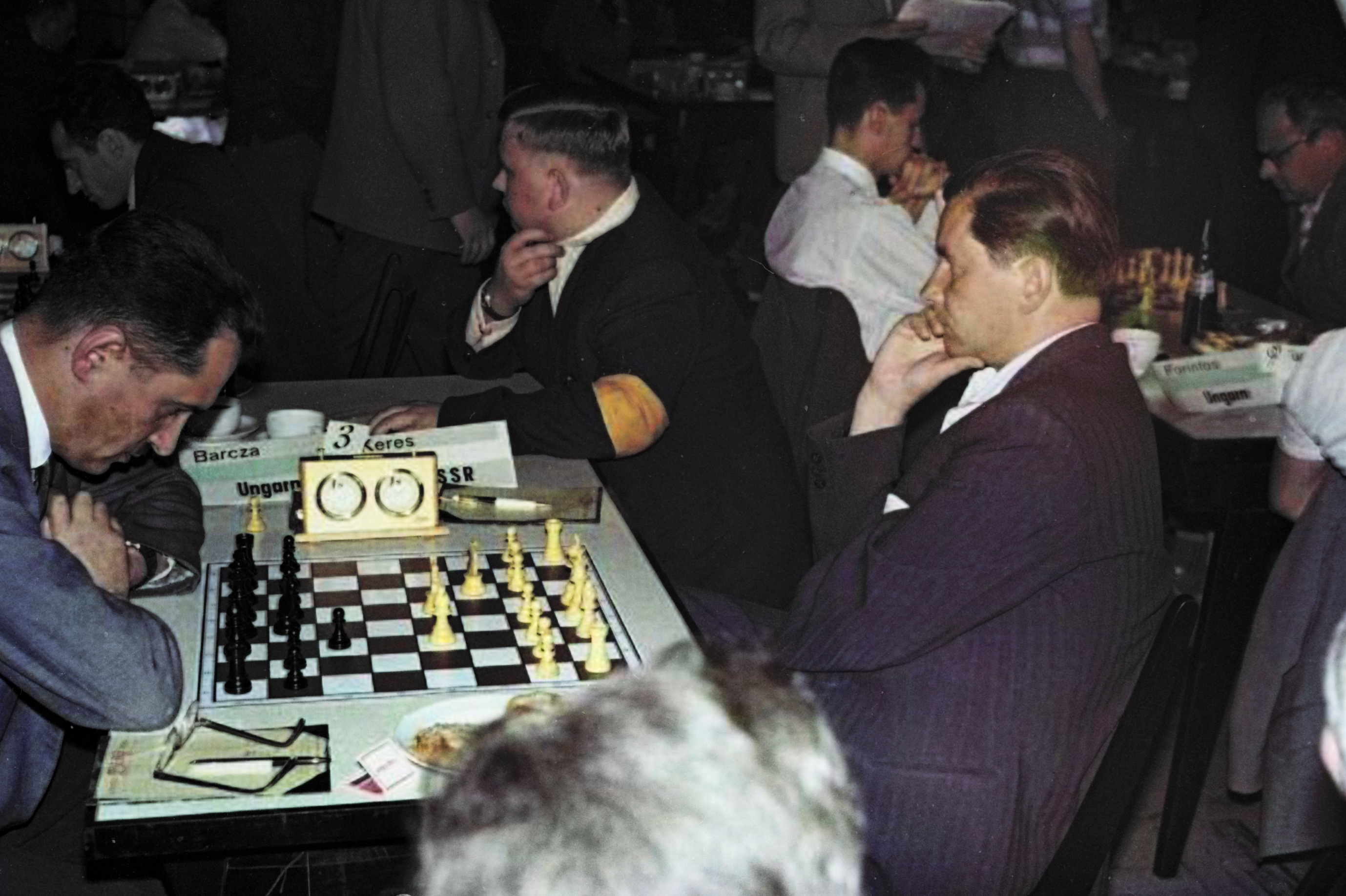 Gedeon Barcza - Paul Keres, European Chess Team Championship 1961 at Oberhausen. Photographer Gerhard Hund. Game status: Situation on the picture was reached after 1. e4 c6 2. Nc3 d5 3. Nf3 dxe4 4. Nxe4 Nd7 5. Bc4. Black resigned after move no. 49.